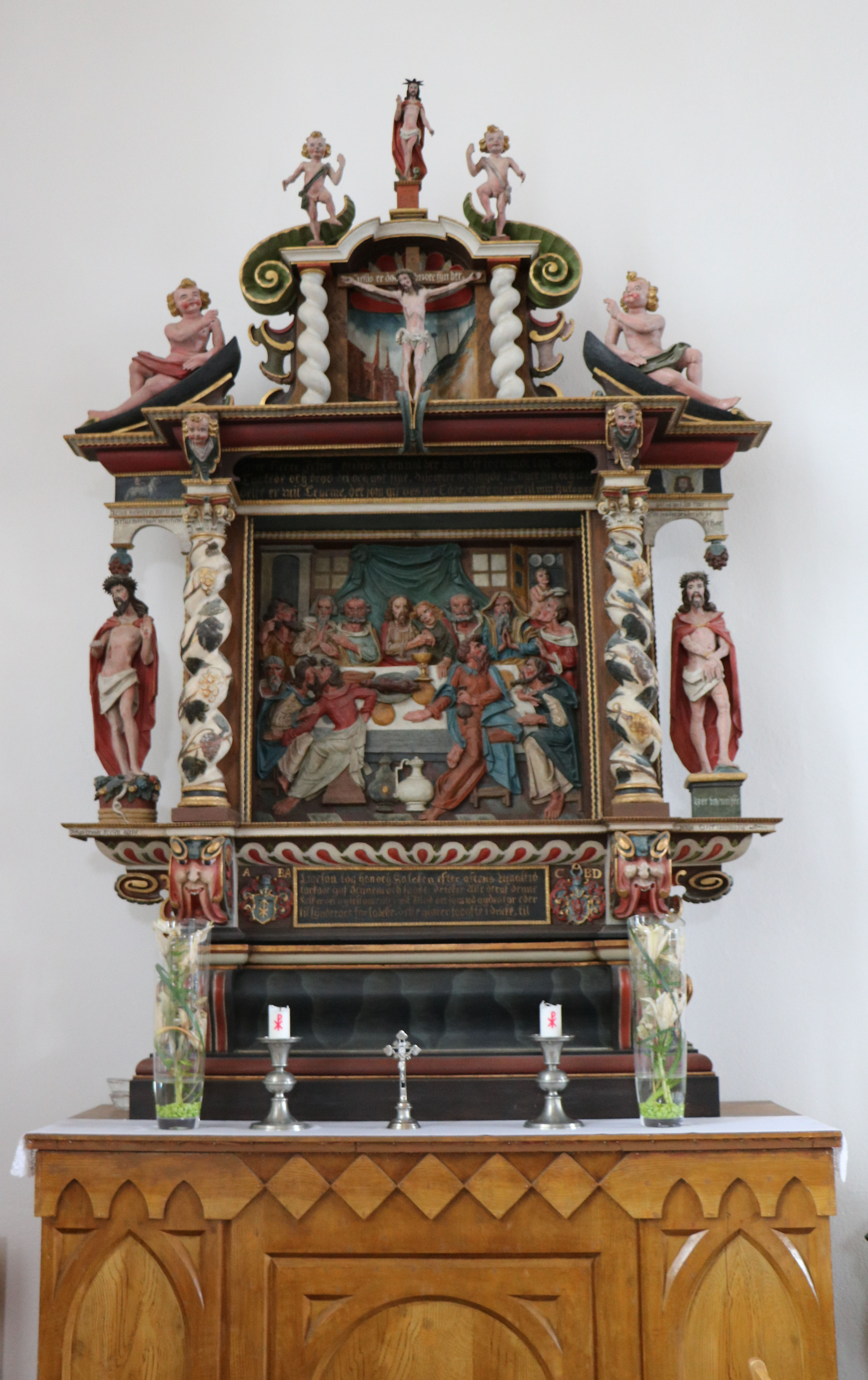 Rödeby kyrka.Altaruppsats från gamla kyrkan tillverkad 1673 av bildhuggaren Åke Truedsson från Asarum. Centralmotiv är Nattvardens instiftelse.